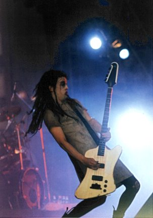 Twiggy Ramirez live 1997